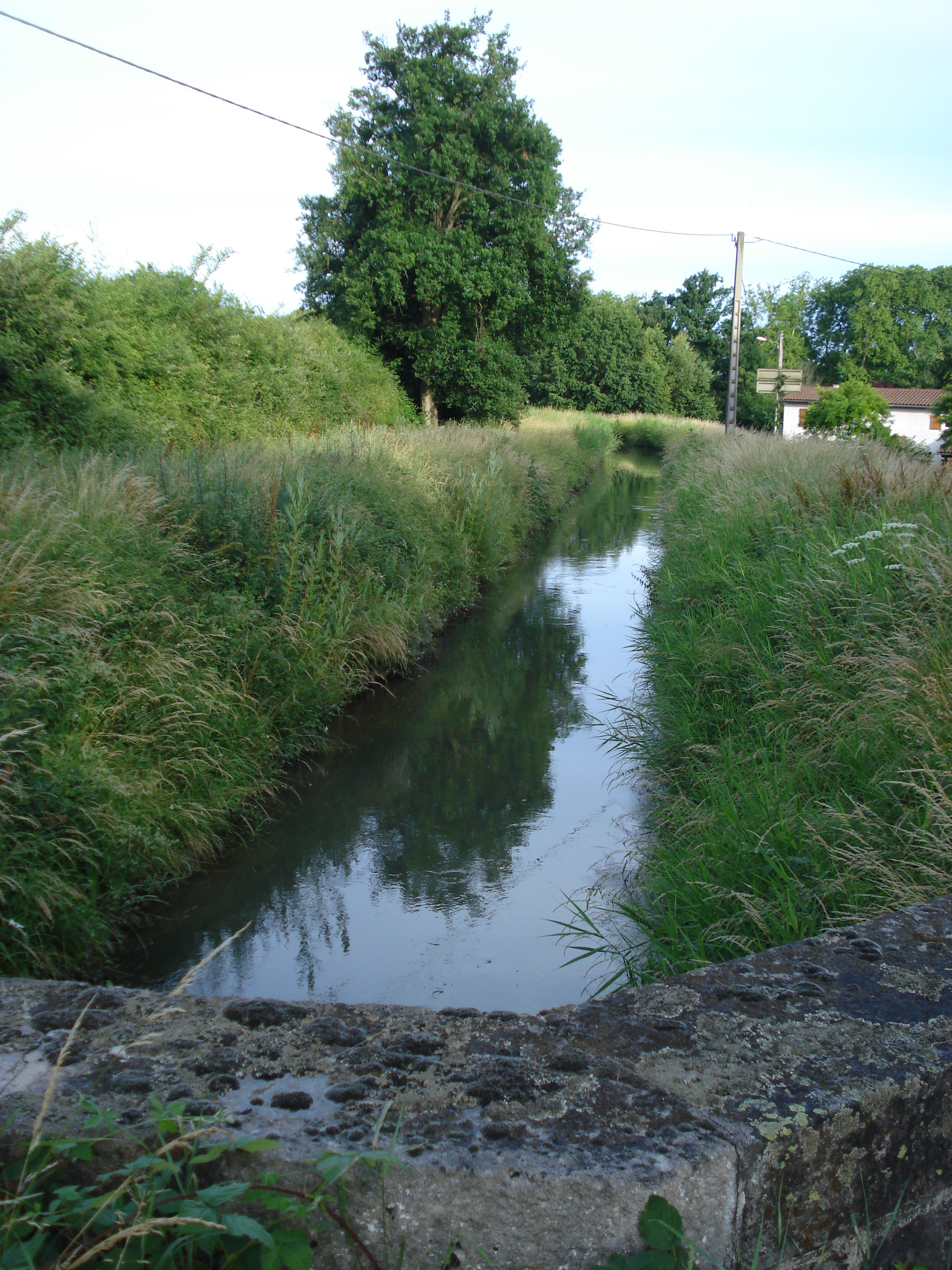 Canal du Forez at Chalain-d'Uzore (Loire, Fr).